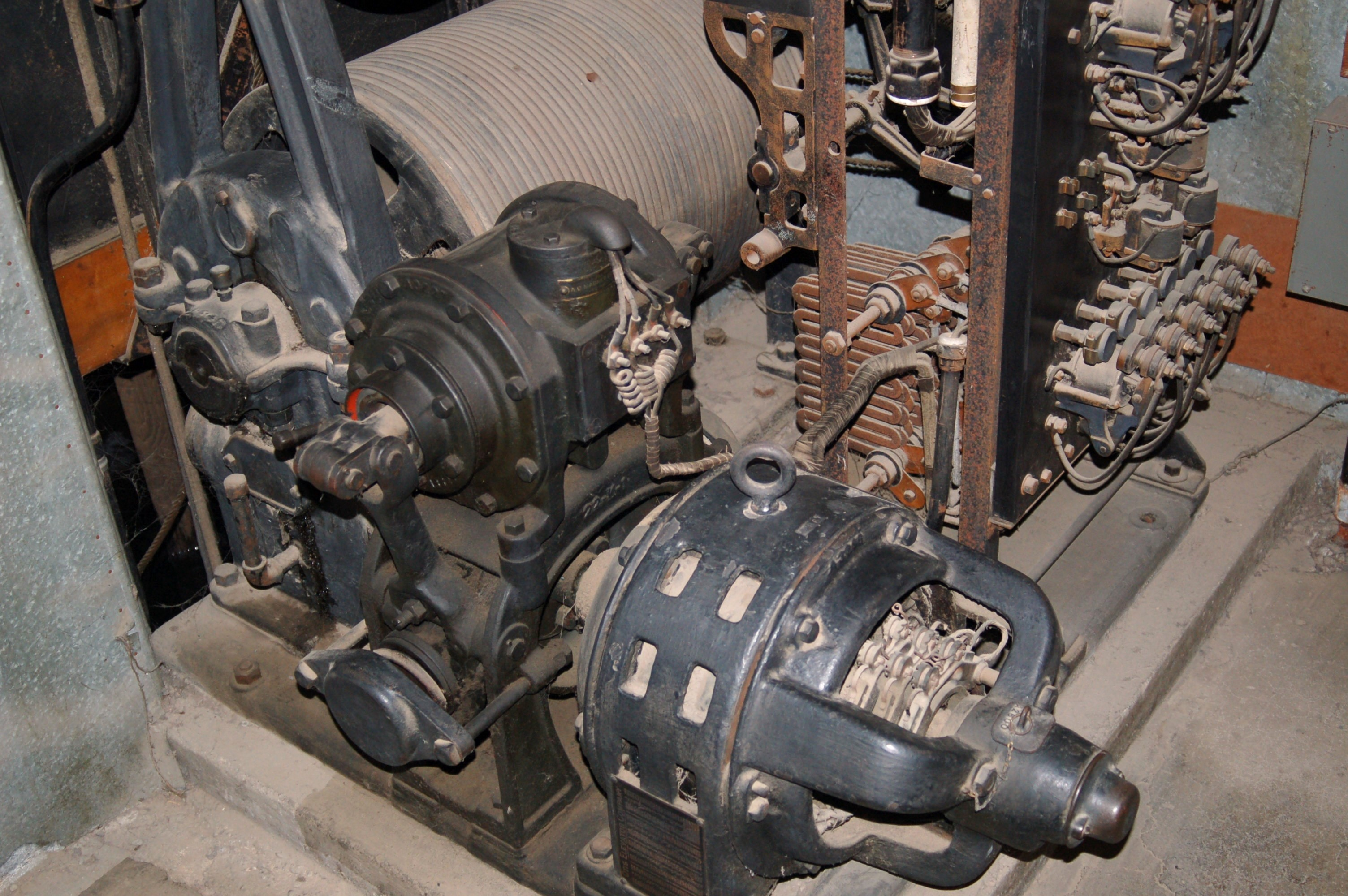 Electrical controller for Otis elevator